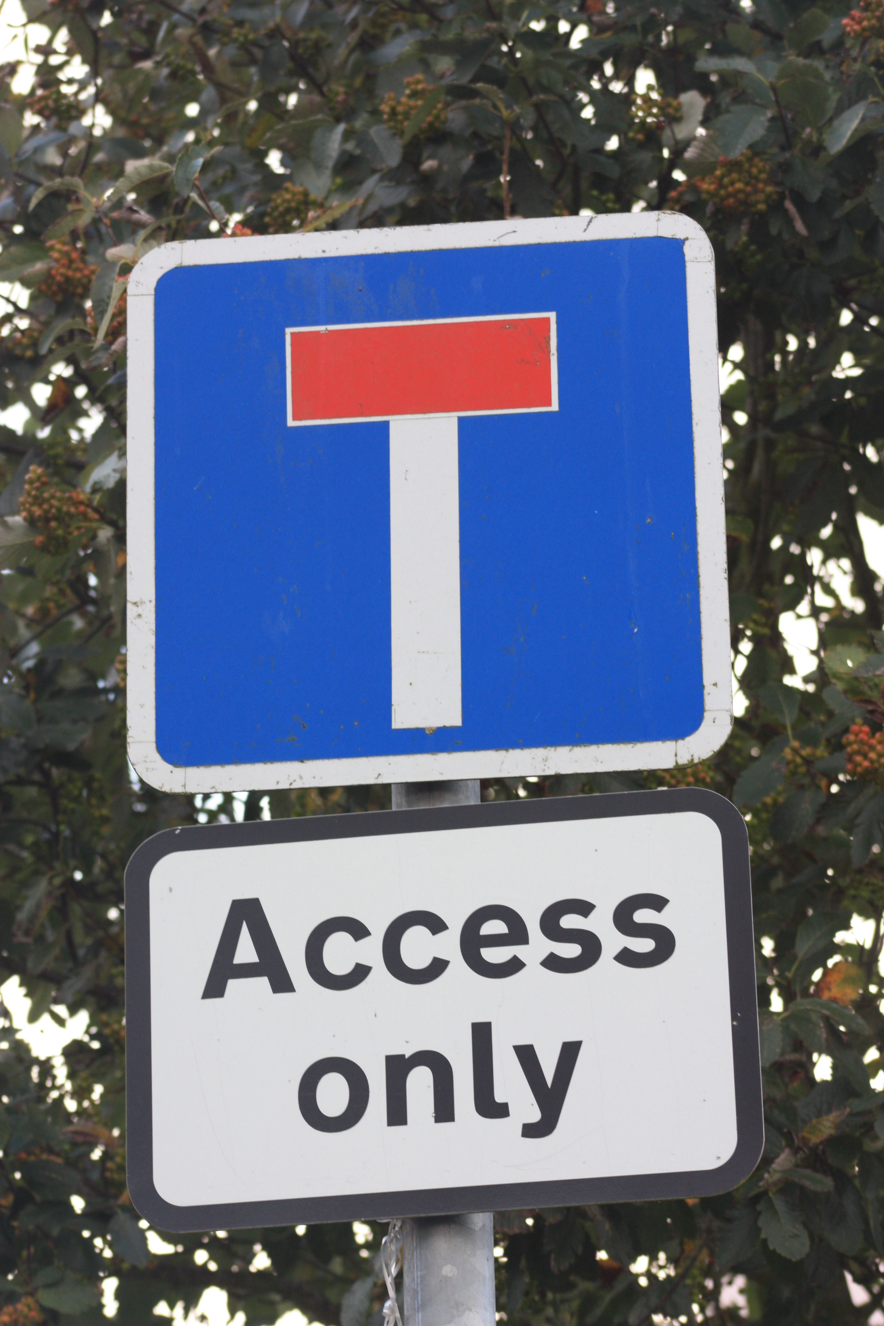 Sign in Castle Street, Strangford, County Down, Northern Ireland, August 2009